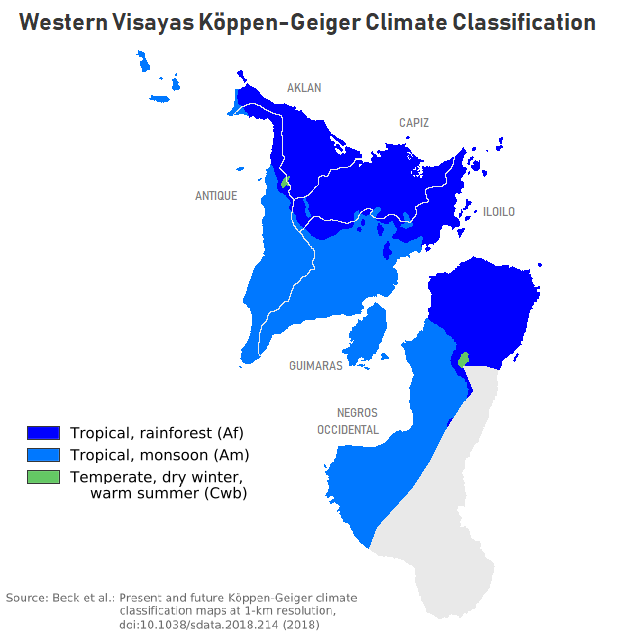 Map shows the Koppen-Geiger climate classification of the Western Visayas region, Philippines.